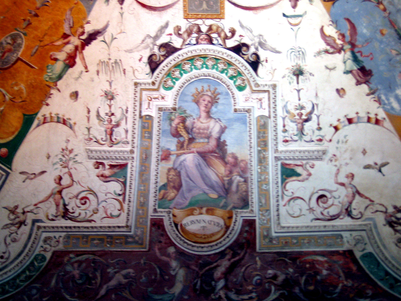 "Rerum Natura" (Mother Nature) surrounded by grottesche decorations: Villa d'Este